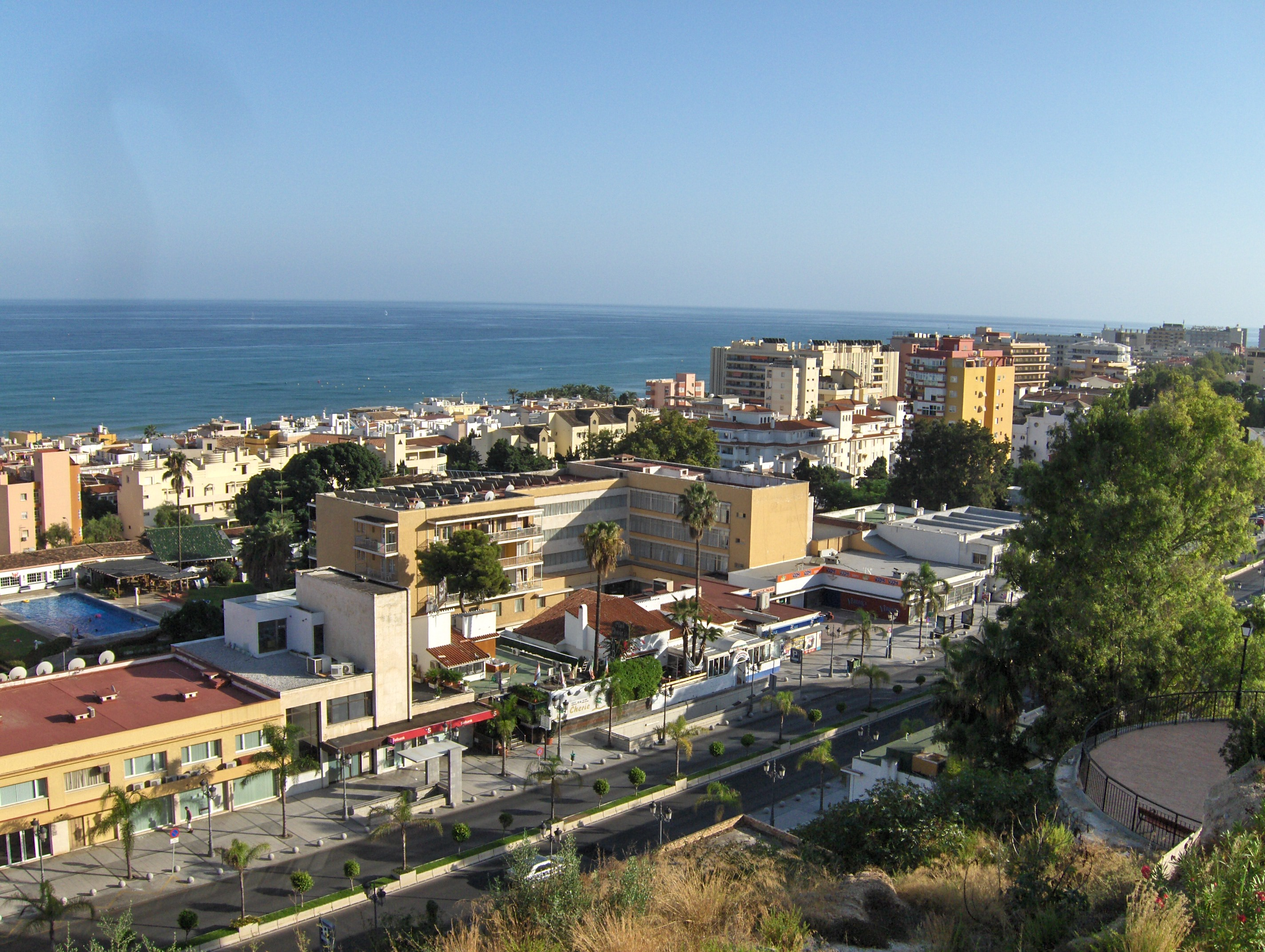 View of La Carihuela from the Parque de la Batería, Torremolinos.